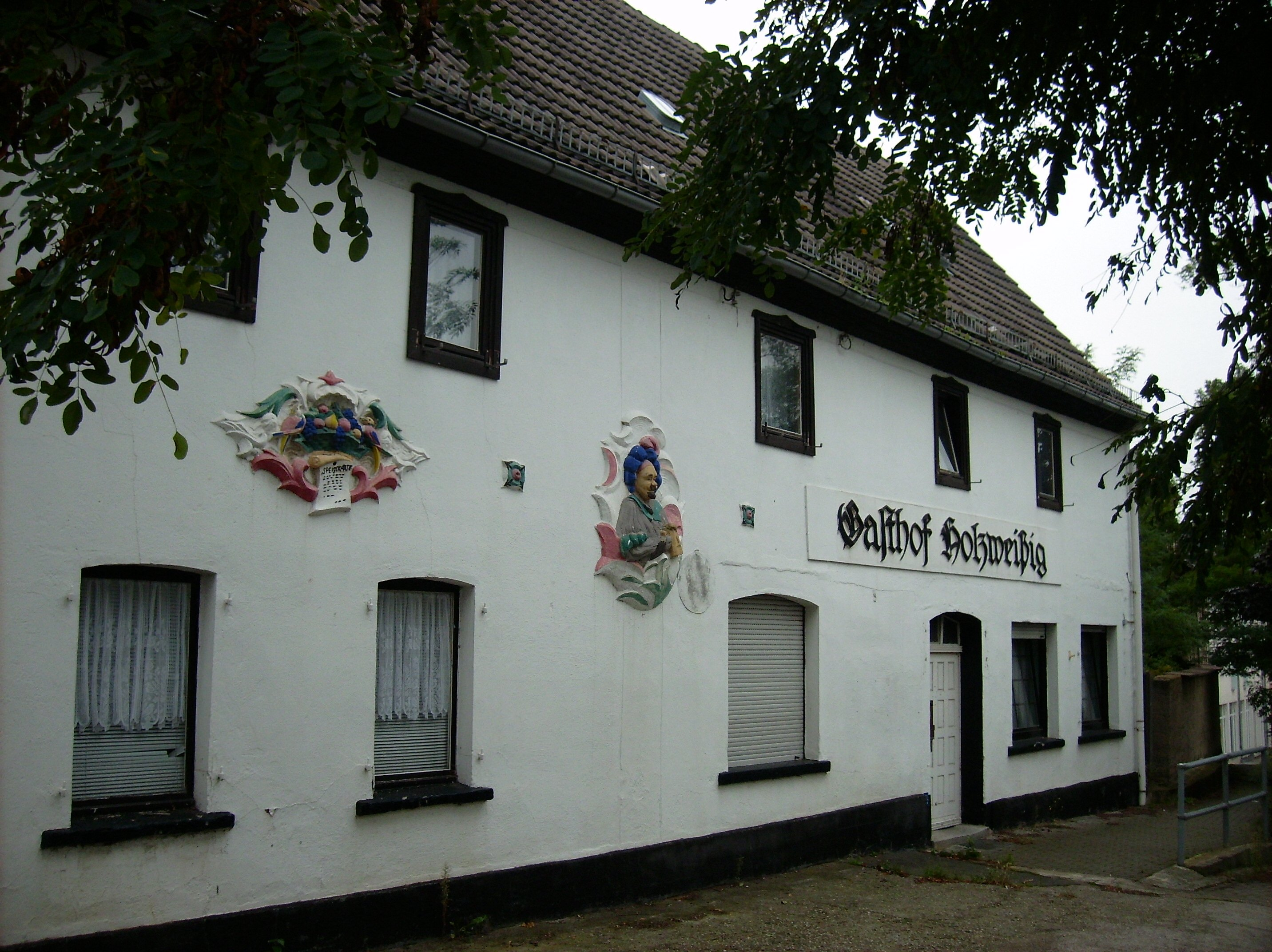 The inn of Holzweissig (Bitterfeld-Wolfen, Anhalt-Bitterfeld district, Saxony-Anhalt)